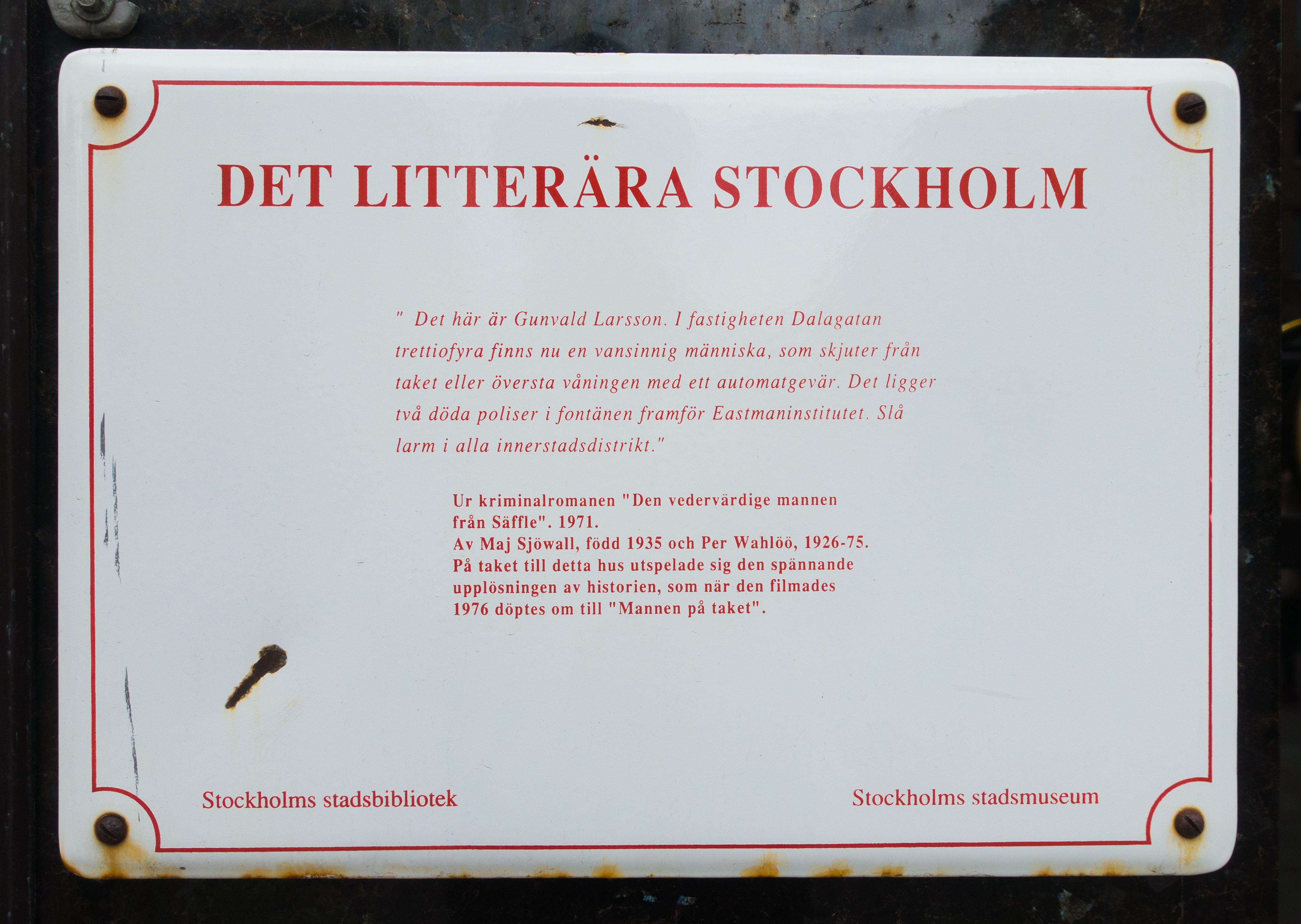 Plaques in Stockholm from a book of Sjöwall/Wahlöö.